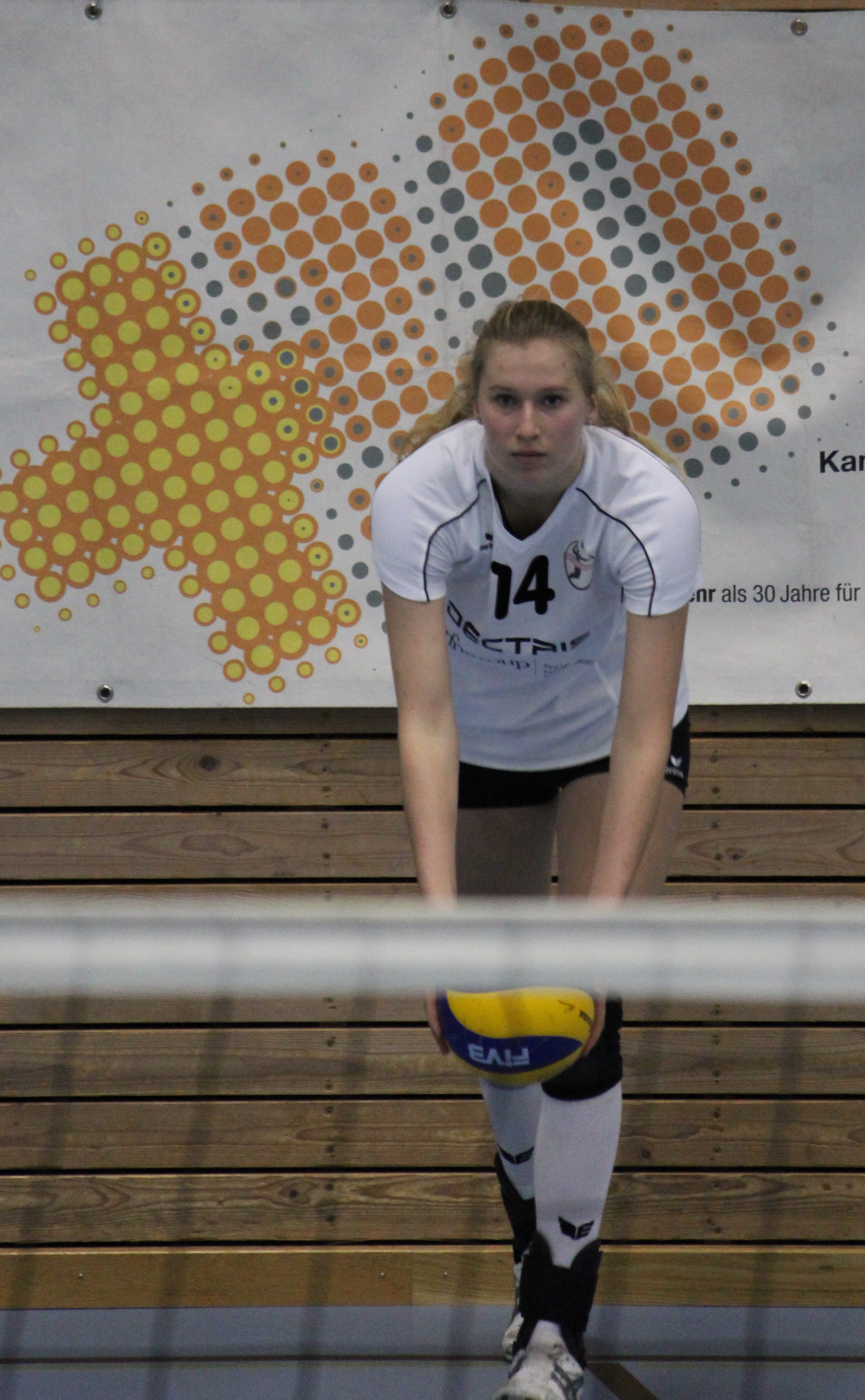 Laura Künzler serviert für Kanti Baden an den Playoffs 2012/2013 um den Aufstieg in die NLB